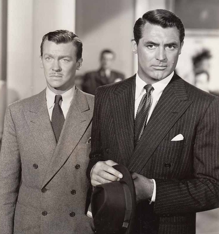 Dan Tobin (left) and Cary Grant in The Bachelor and the Bobby-Soxer - publicity still (cropped)